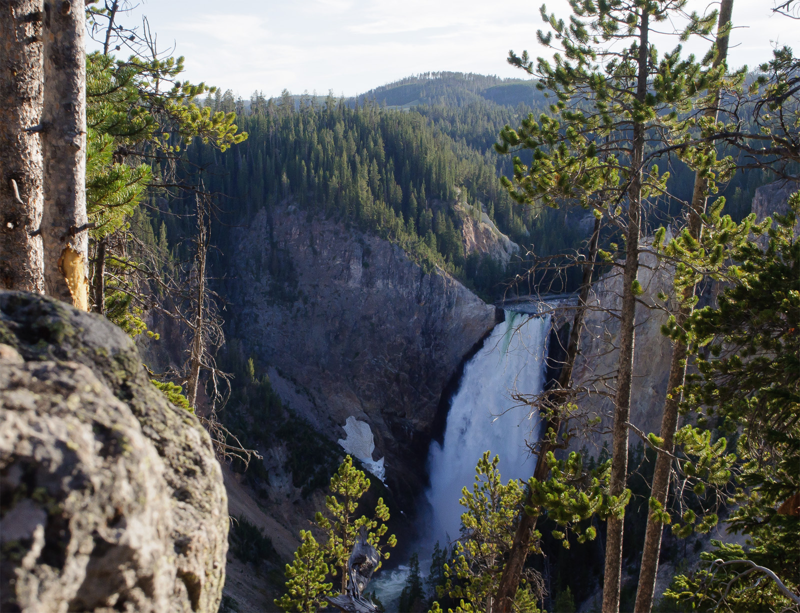 The Yellowstone River, which originates at Yellowstone Lake to the south, falls through two waterfalls and carves the Grand Canyon of the Yellowstone in this area. And with Canyon Village and its visitor services nearby, the two waterfalls are rather easy for visitors to access. The Lower Falls.